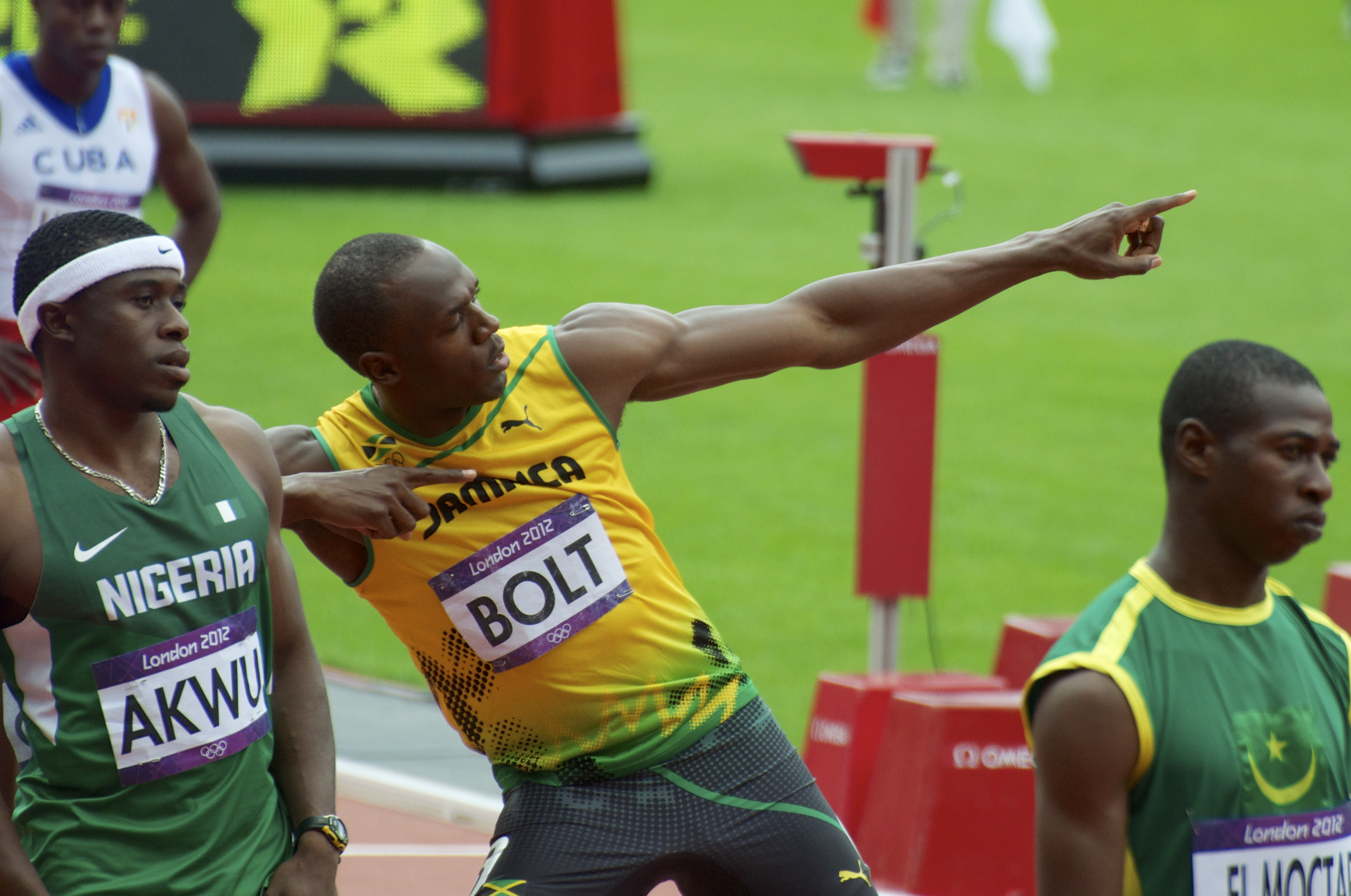 AKA 'To Di World'